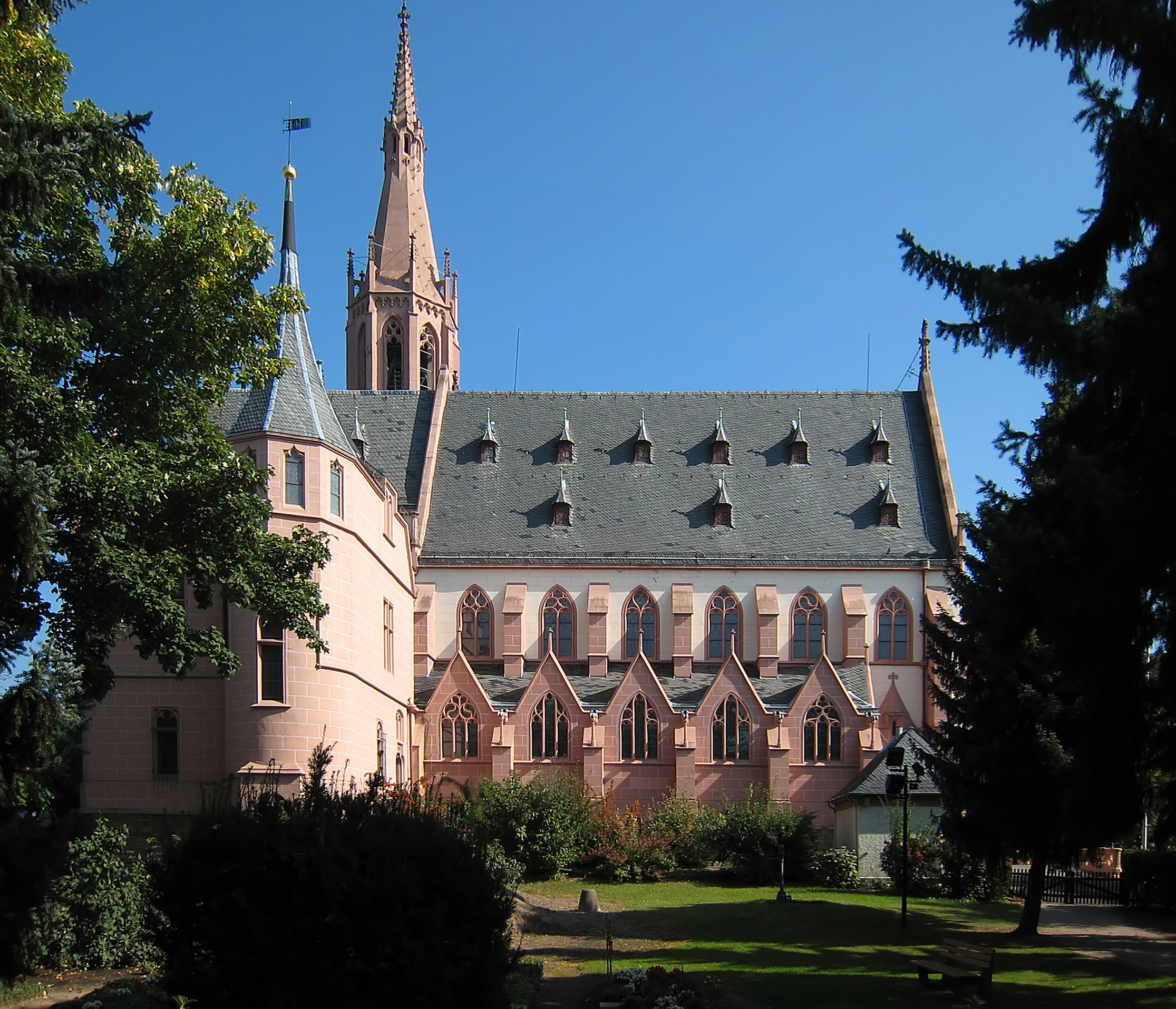 Rochus Chapel above Bingen on the Middle Rhine in Germany